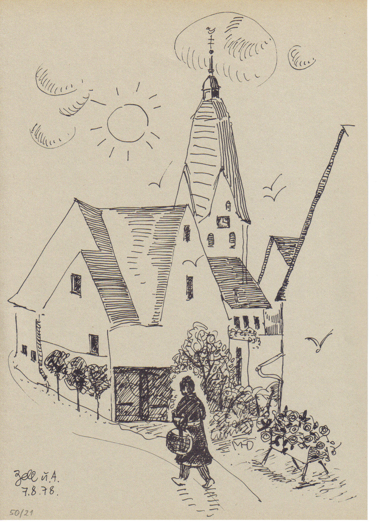 Zell u.A., drawing by Margret Hofheinz-Döring, 20 x 30 cm